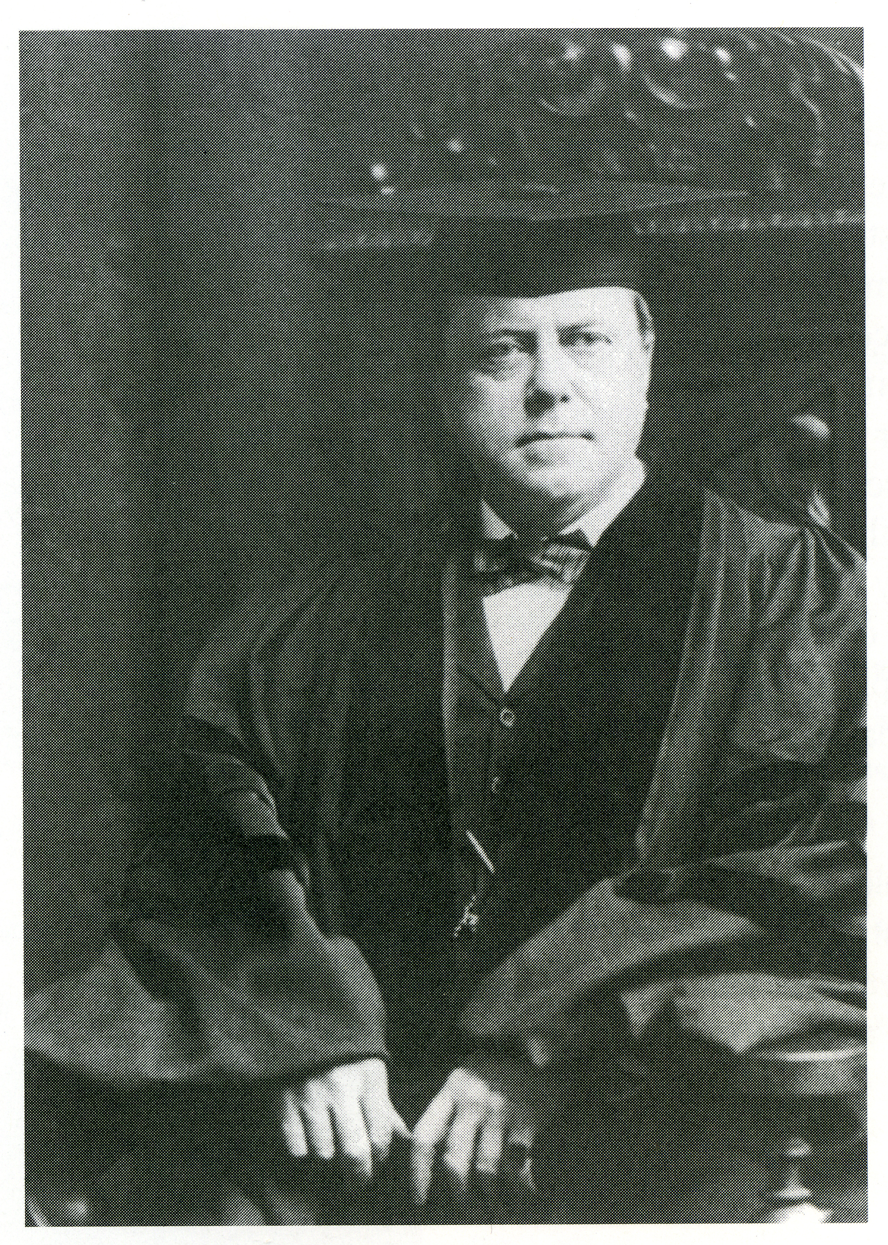 This Image is a picture of Dr. Roswell Park